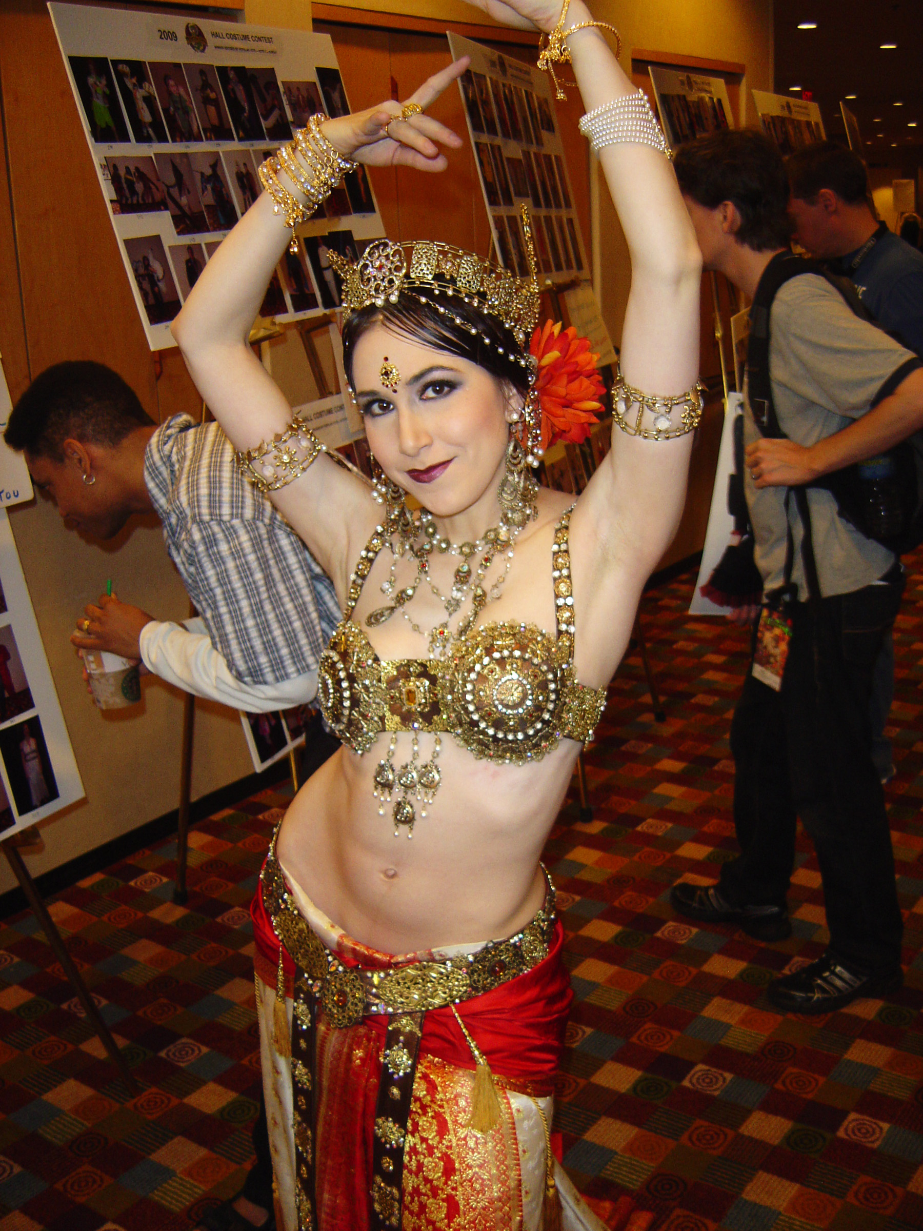 Dancer in costume inspired by the dance costumes of Mata Hari